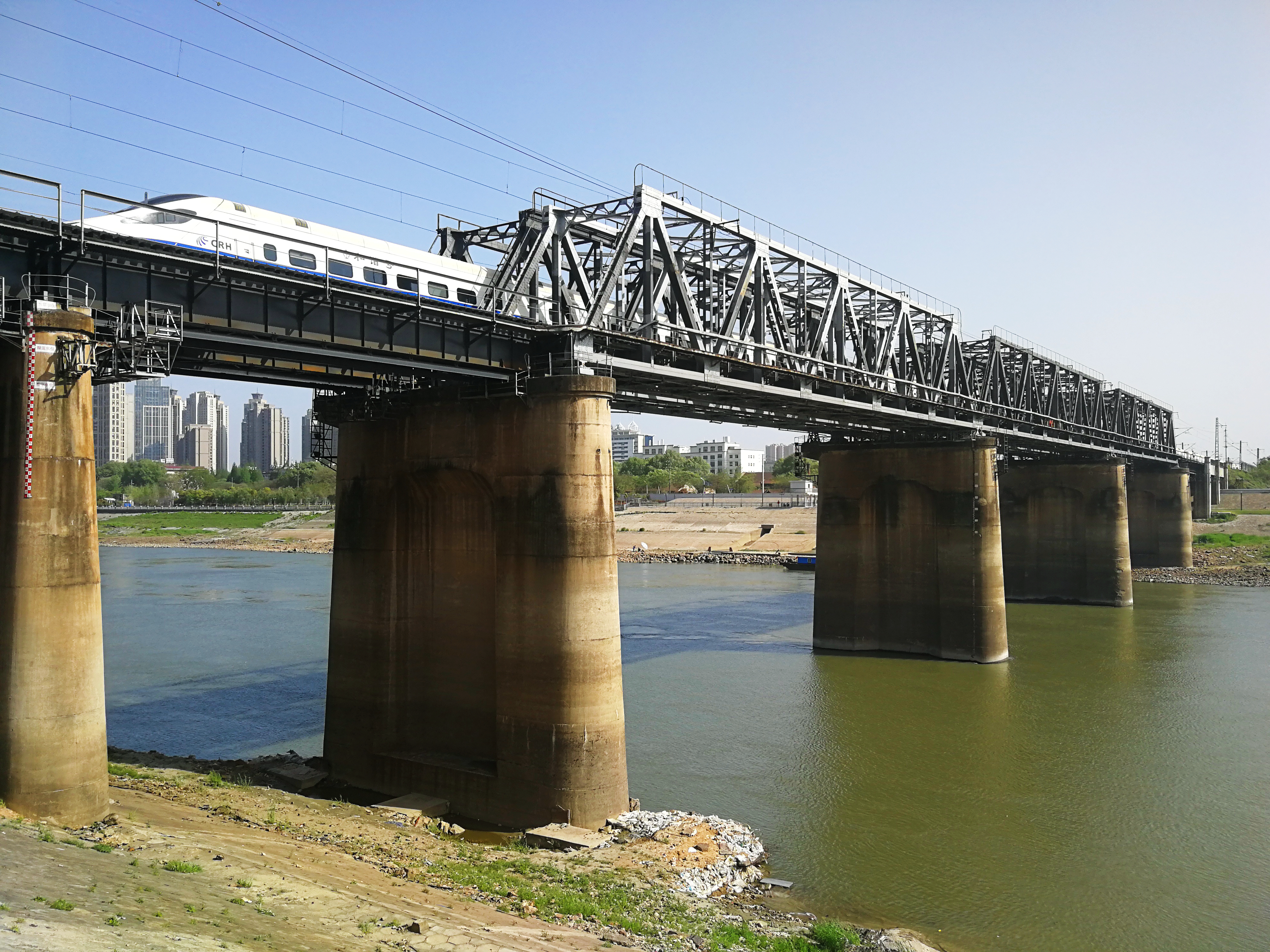 Beijing-Guangzhou Railway Hanshui Railway Bridge with a CRH train